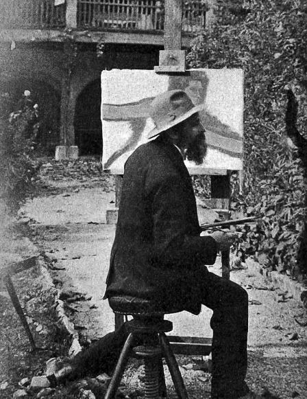 Gustave-Auguste Jeanneret (1847–1927) Maler, 1914